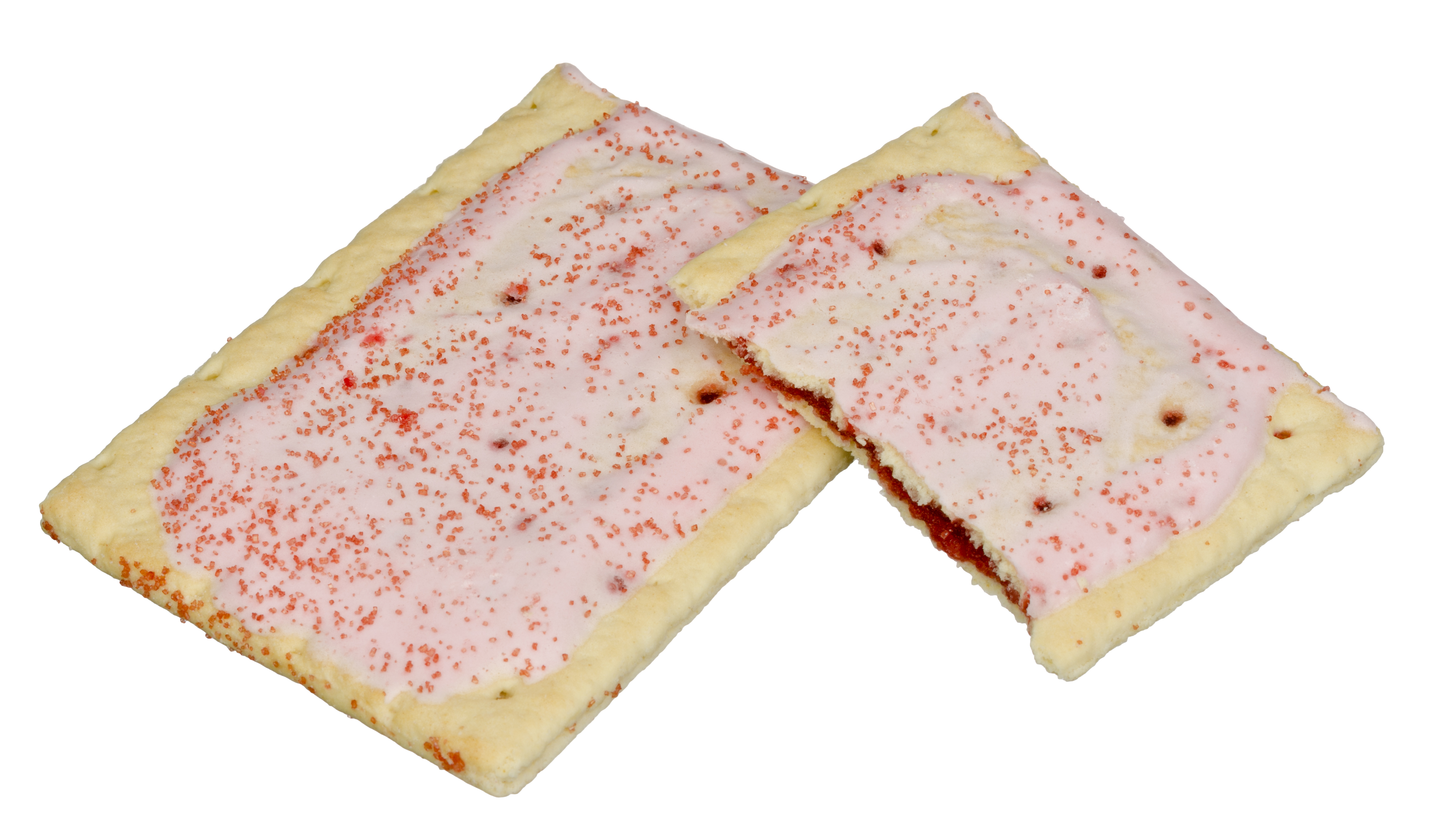 Two cherry Pop-Tarts, a standard Pop-Tart flavor available in America.